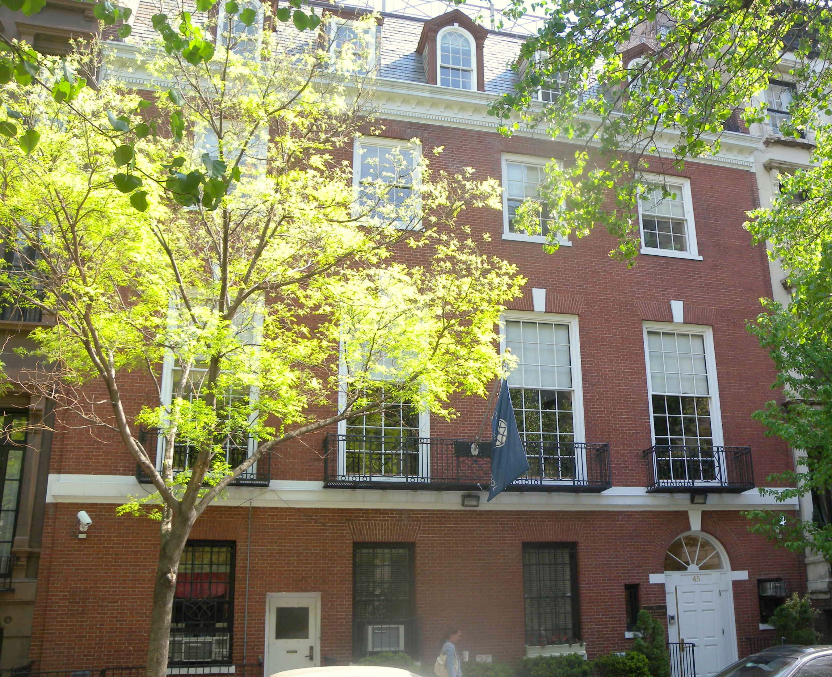 Looking northeast at Hewitt School on a sunny summer morning.